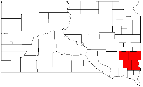 Map of South Dakota highlighting the Sioux Falls Metropolitan Statistical Area; created with the GIMP. Made by User:Acntx.